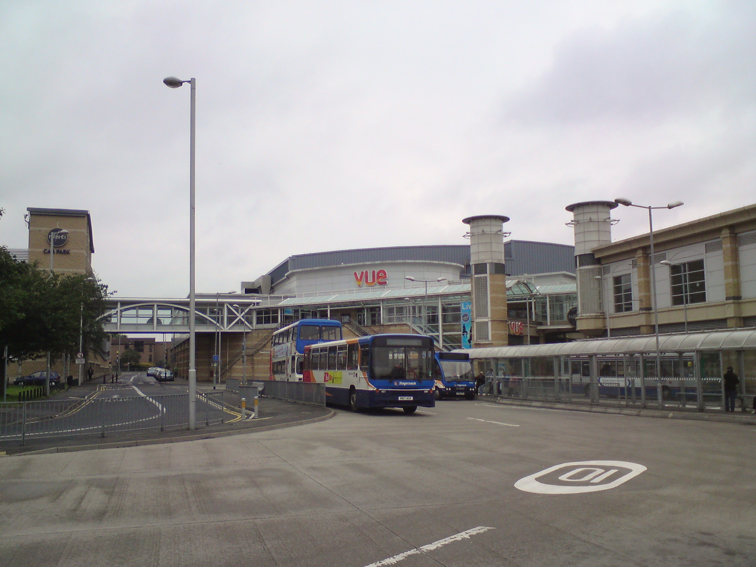 Scunthorpe bus station